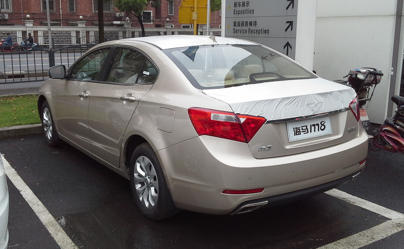 Haima M8 photographed in Shanghai, China.